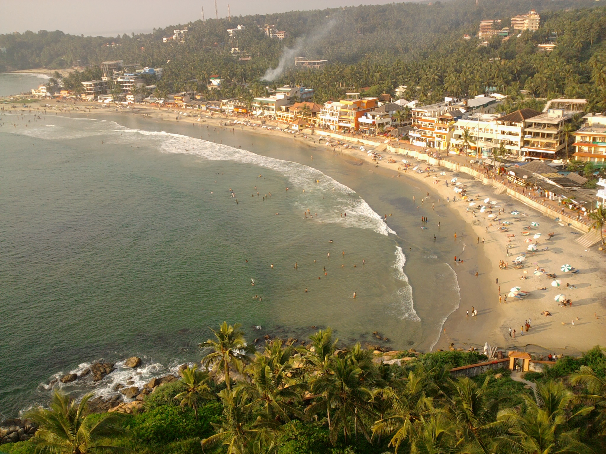 Kerala